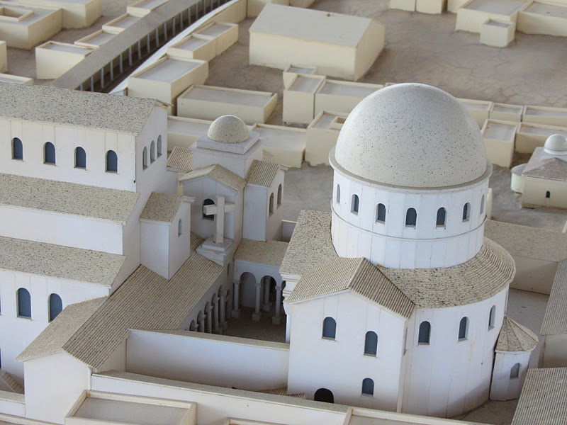 The model of the Holy Sepulchre in Jerusalem in the Byzantine period at St. Peter's in Gallicantu; East Jerusalem